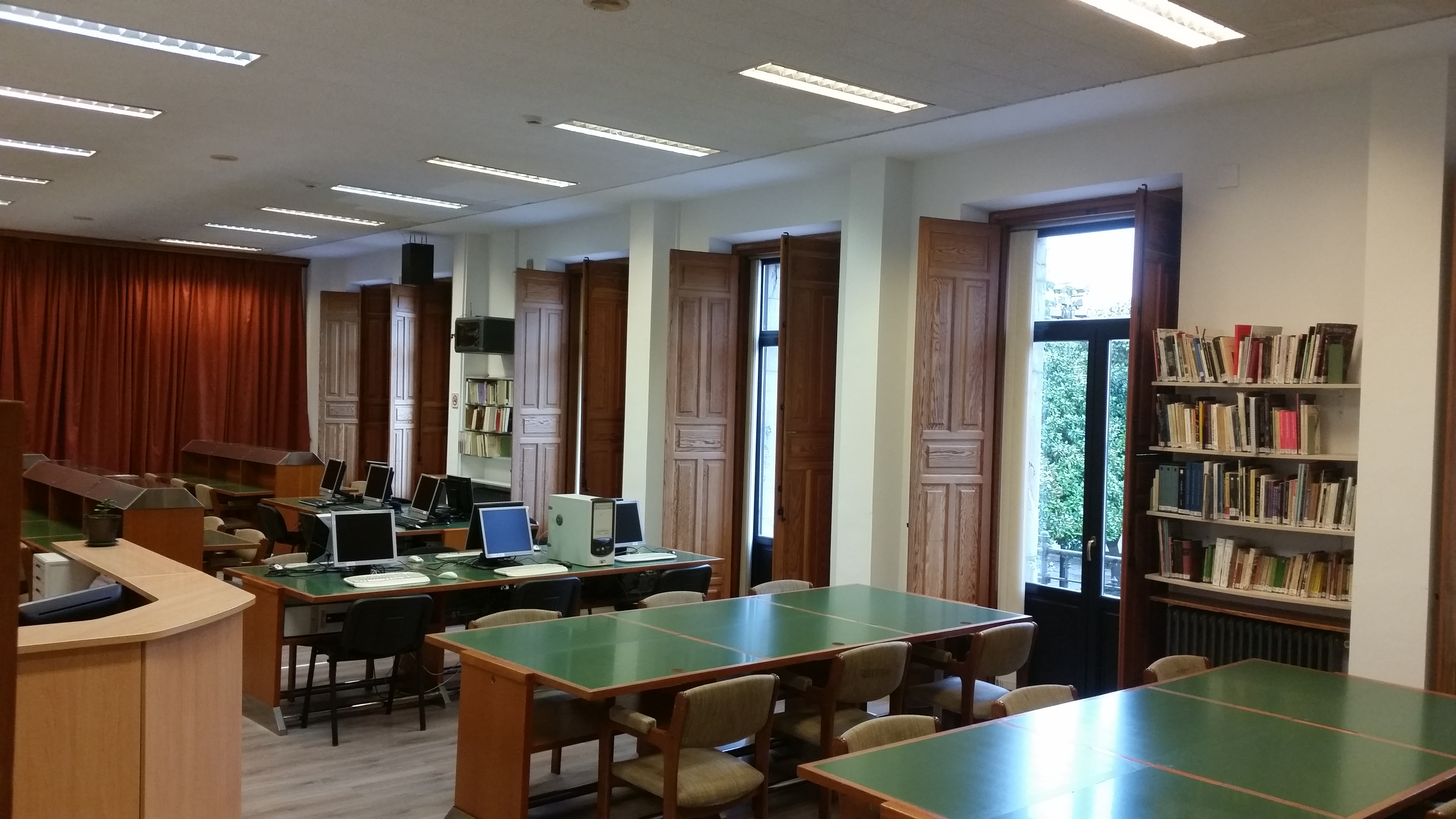 Another view of the reading room of Conservatoire Eduardo Martínez Torner